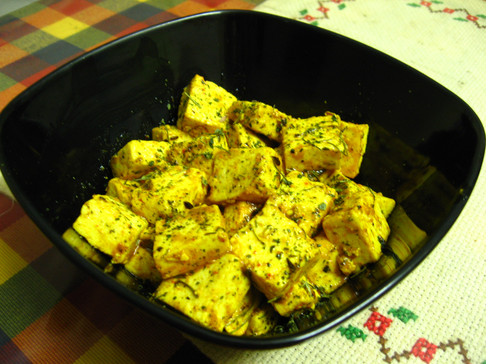 Paneer compacted curdled milk / cheese, drained, compacted and then cooked